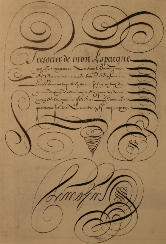 Philippe Limosin, L'Escriture financière et italienne, c. 1651.